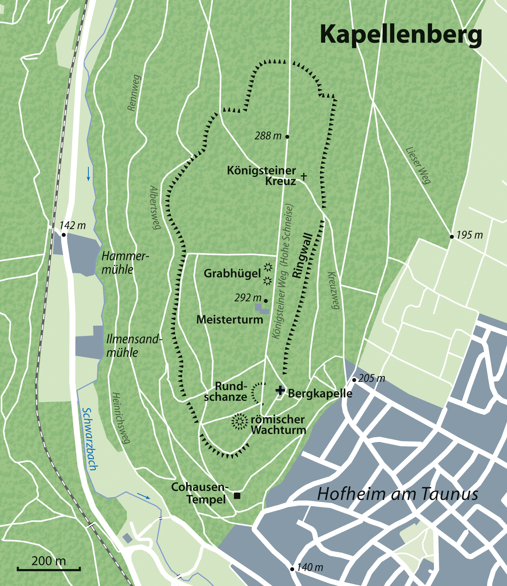 Map of Kapellenberg near Hofheim am Taunus, Germany This map may be incomplete, and may contain errors. Don't rely solely on it for navigation.